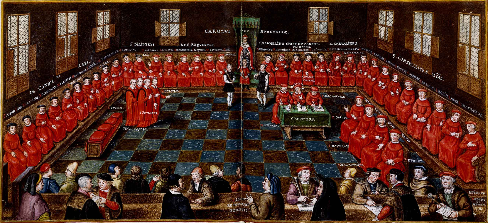 Session of the Great Council of Burgundy presided over by Charles the Bold. 17th century drawing after a 15th century original. BnF, Estampes, réserve OB-10-FOL, f38v-39r